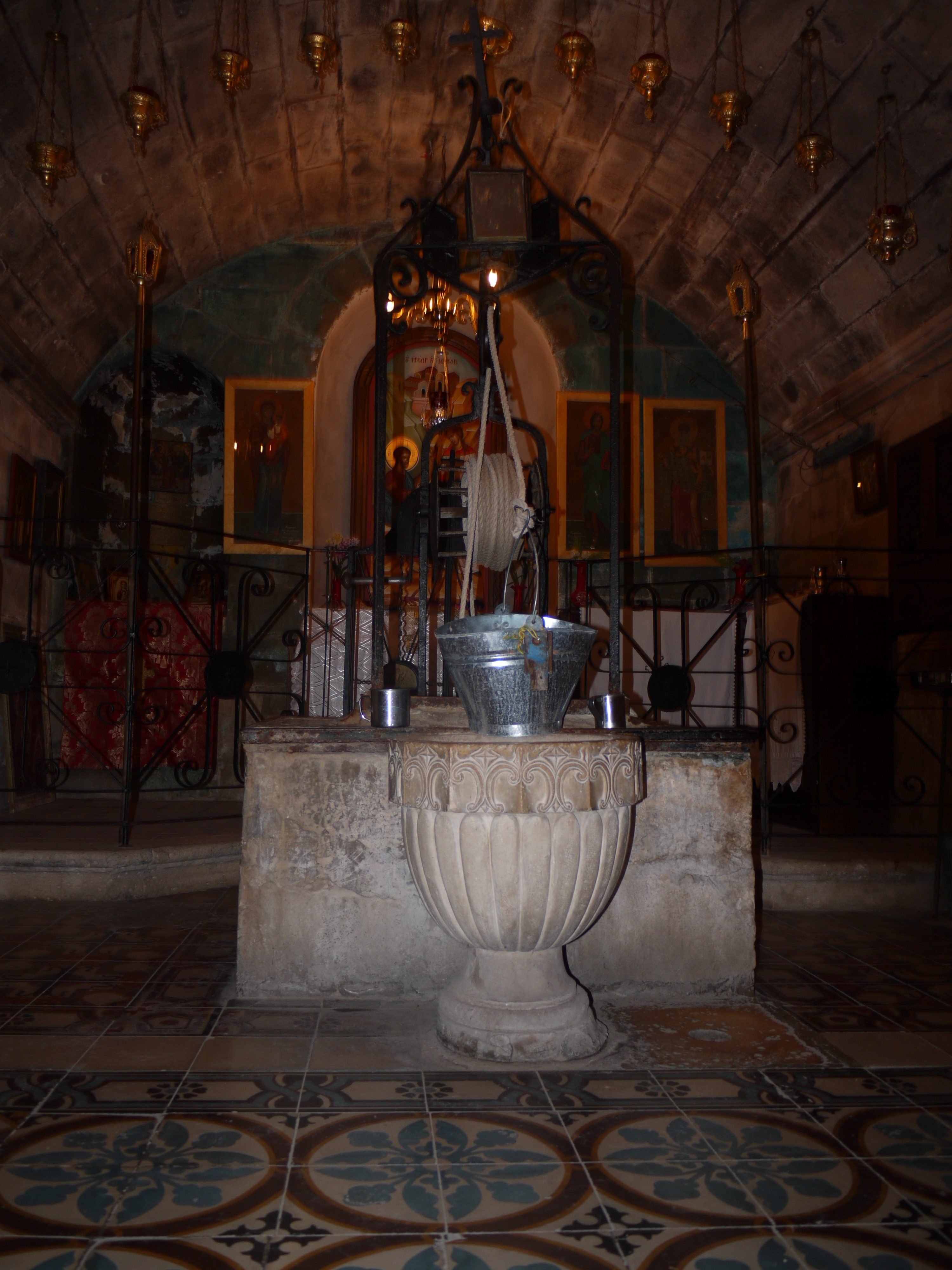 Jacob's Well in 2013. Photo taken with permission on a rare day the eucharist was not being celebrated.